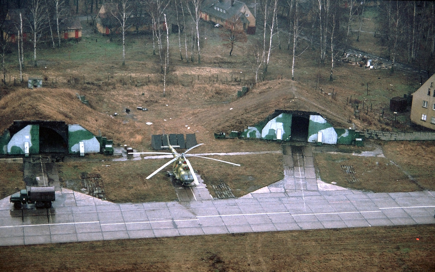 Altenburg was a MiG-29 base in the south west of East Germany. The photo was taken from a Mi-8 Hip.